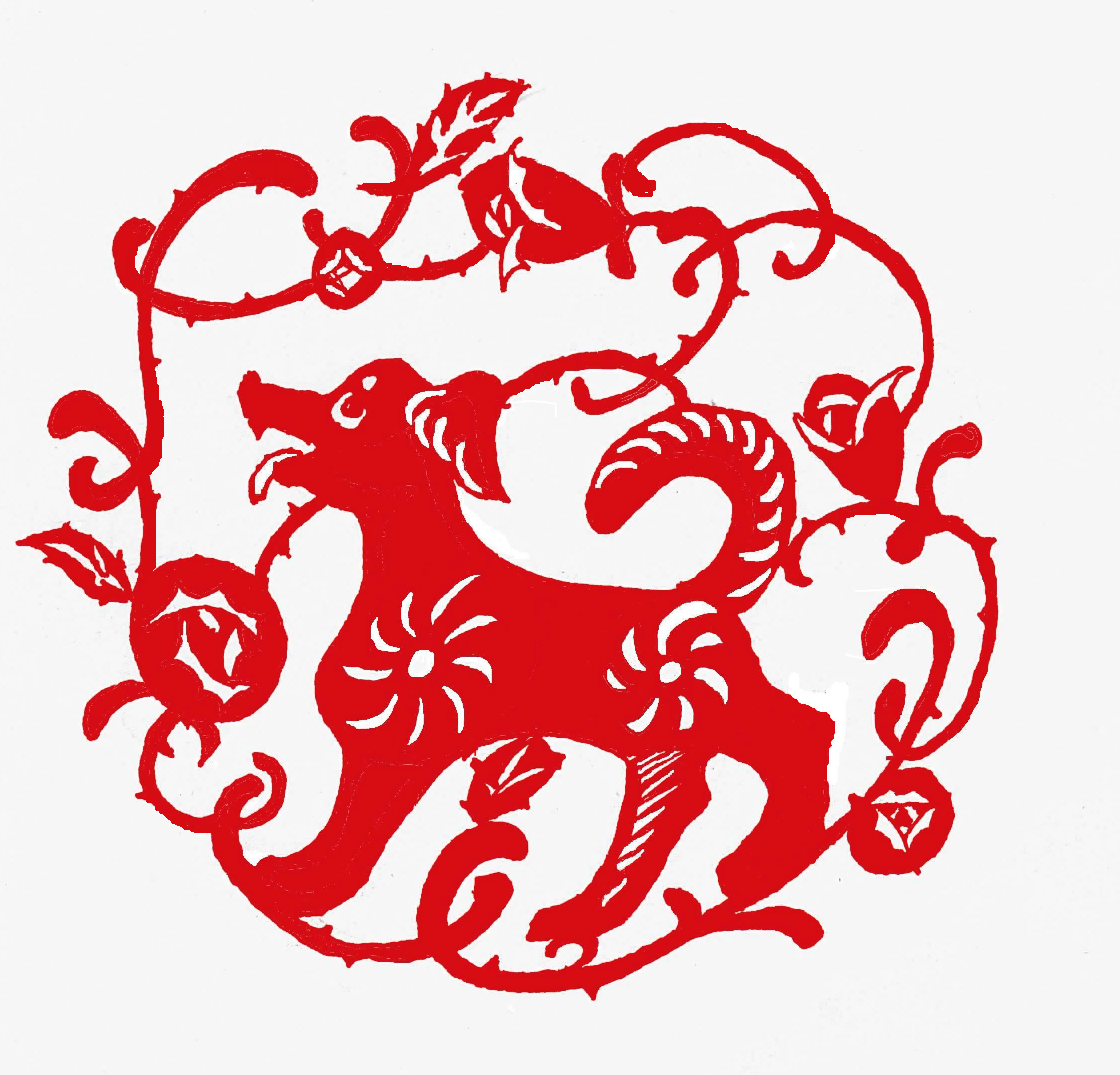 Chinese papercutting. Paper-cut for Dog Year celebrating.